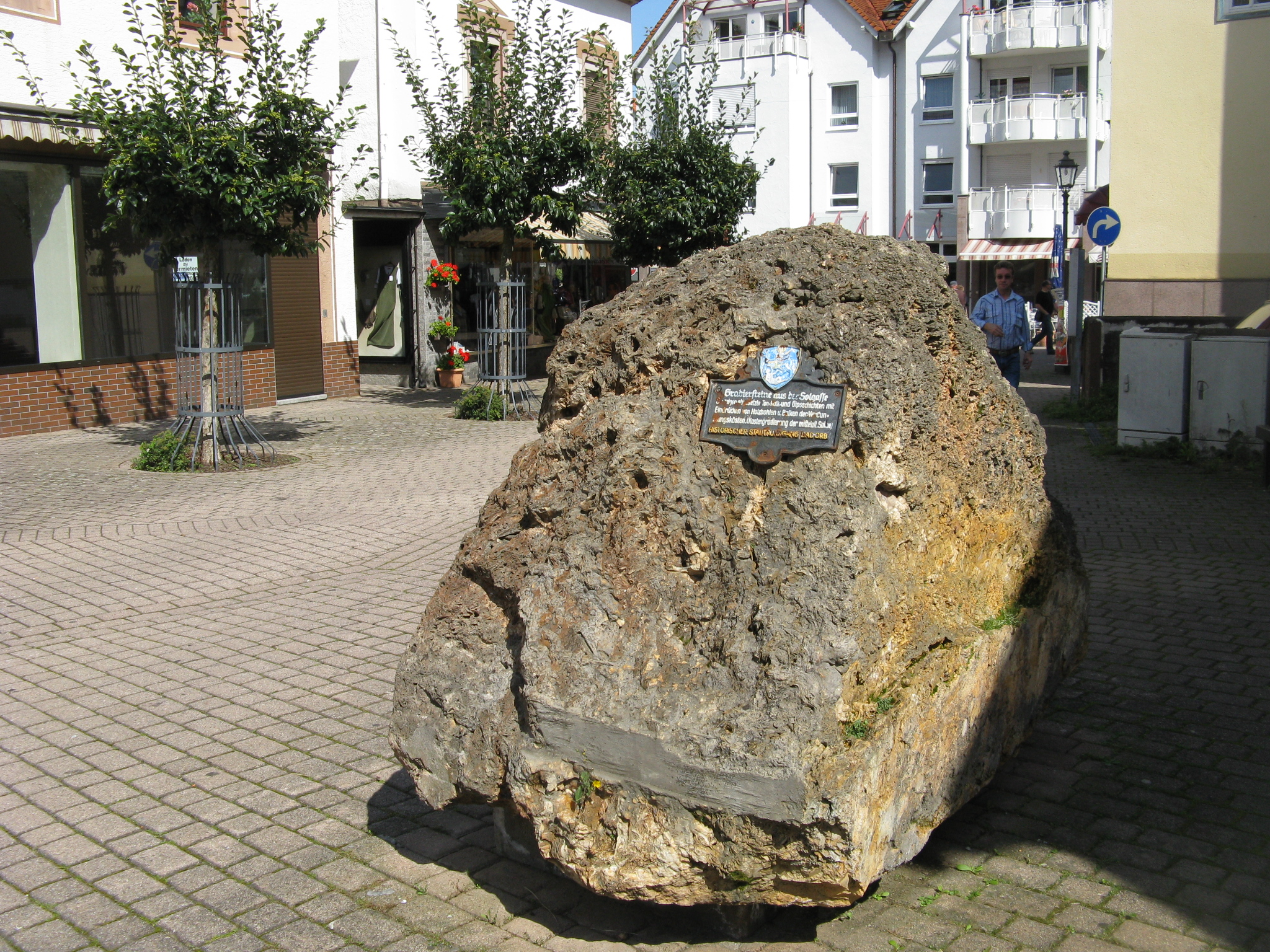 Bad Orb/Germany, graduation stone, city center